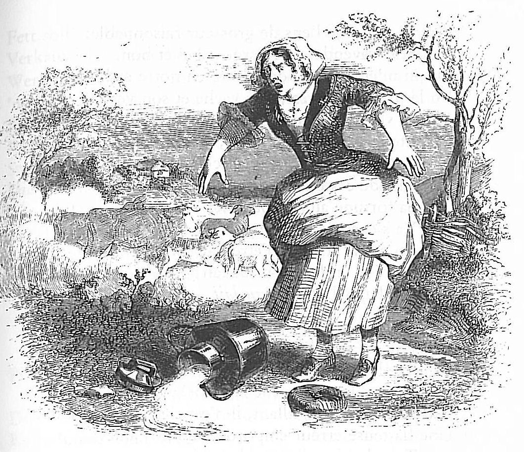 illustration of Jean de La Fontaine's fables by Grandville